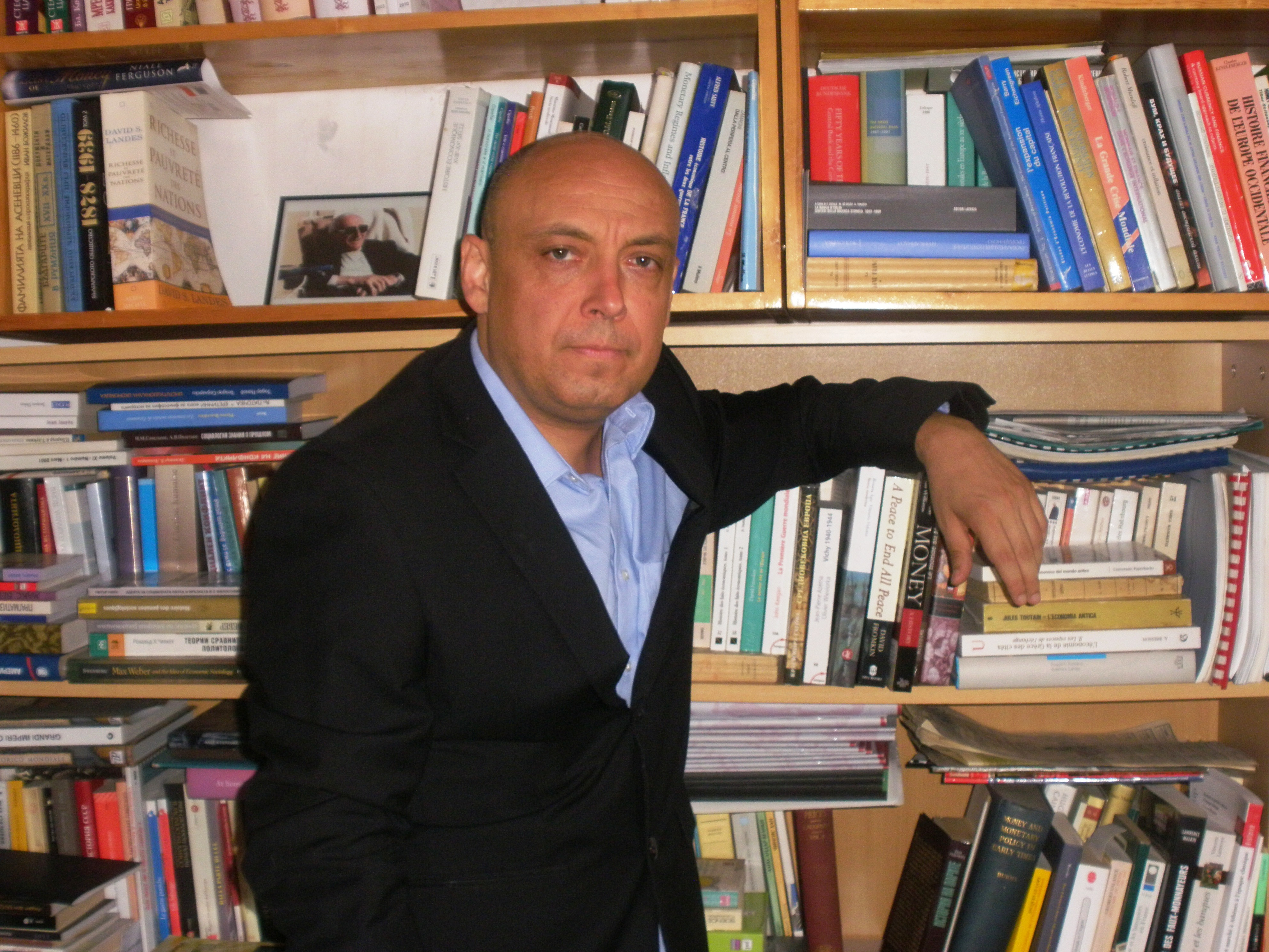 Nikolay Nenovsky, Sofia 2012